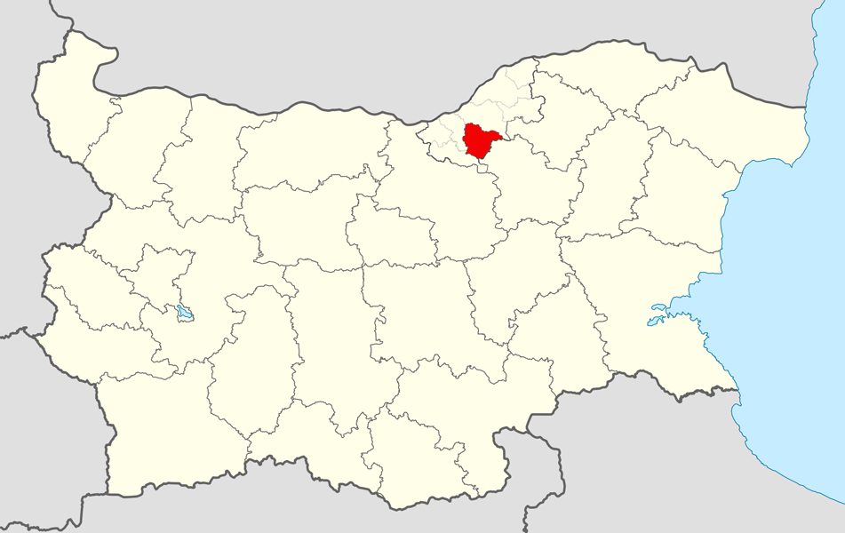 Location map of Dve Mogili Municipality within Bulgaria and Ruse Province. Equirectangular projection, N/S stretching 130 %. Geographic limits of the map: N: 44.4° N S: 41.1° N W: 22.1° E E: 28.9° E